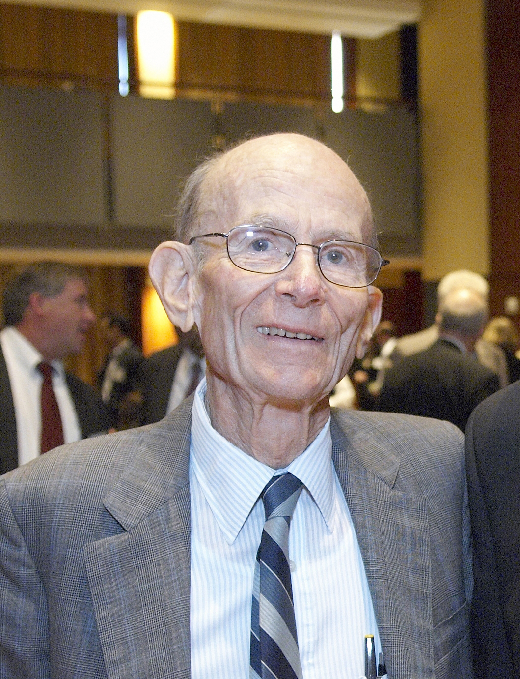 Photograph of John C. Haas, retired chairman of Rohm and Haas Company, at Innovation Day, 7 September 2005, at the Chemical Heritage Foundation, Philadelphia, PA, USA.